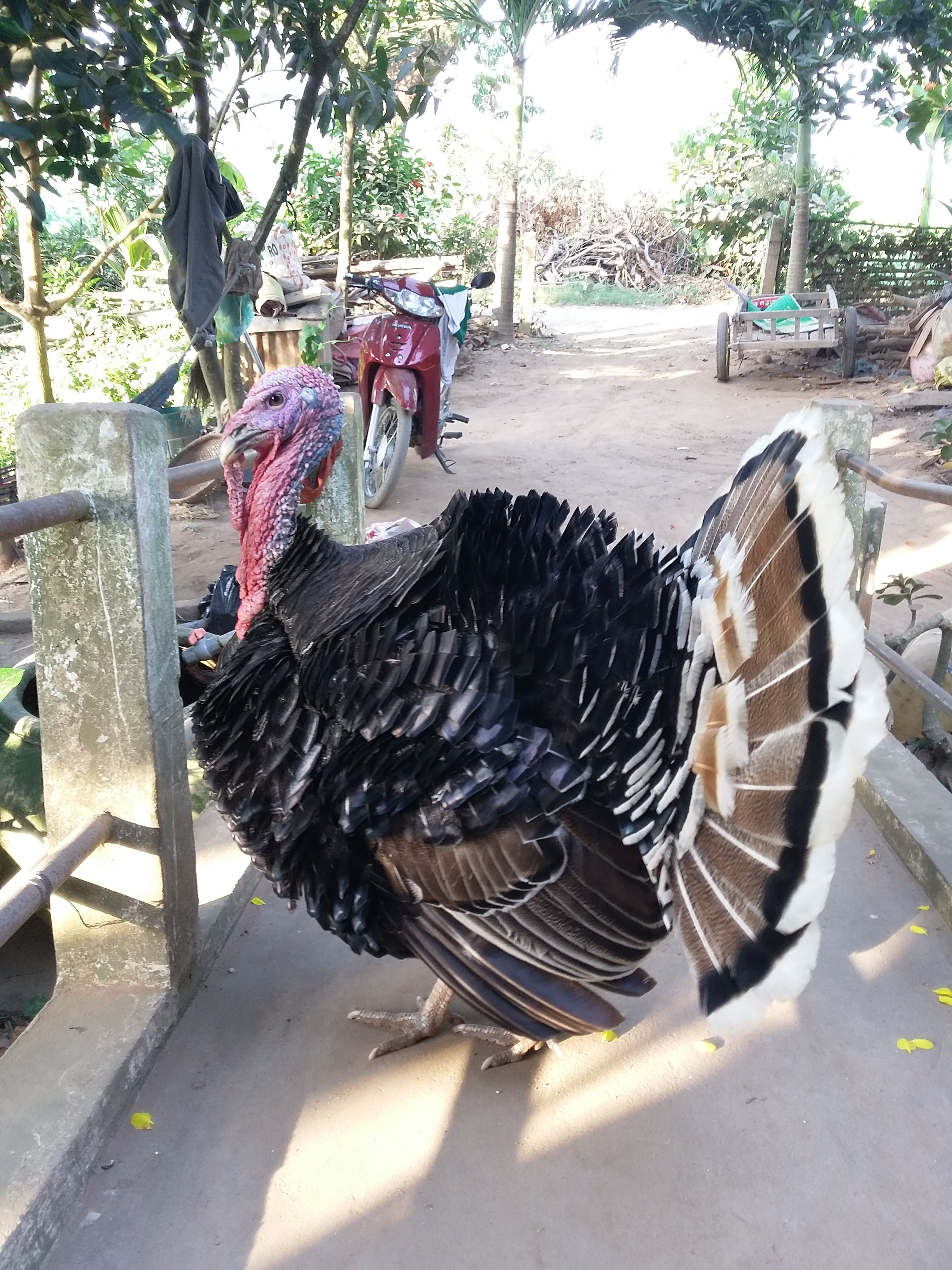 Turkey Bird in An Phu, An Giang, Vietnam